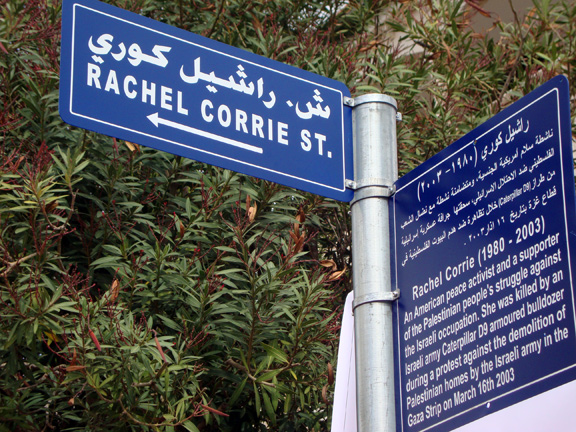 Rachel Corrie Street - The Ramallah municipality dedicated a street to Rachel Corrie on 16 March 2010.